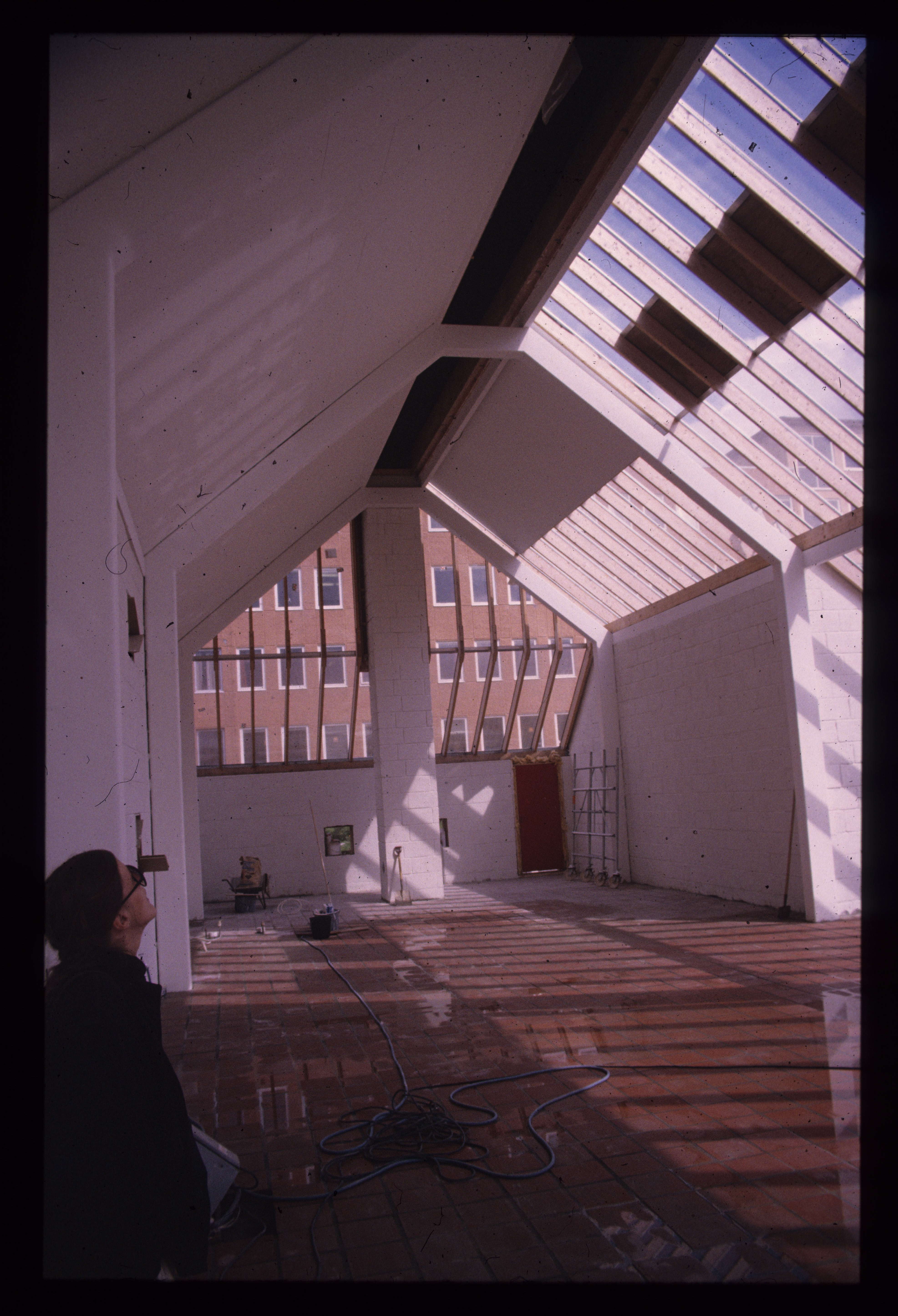 the experimental building Skiboli under construction at NTH Gløshaugen in Trondheim, Norway.